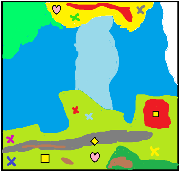 Example of map of Hogs of War mission, all possible things, not a mission in game